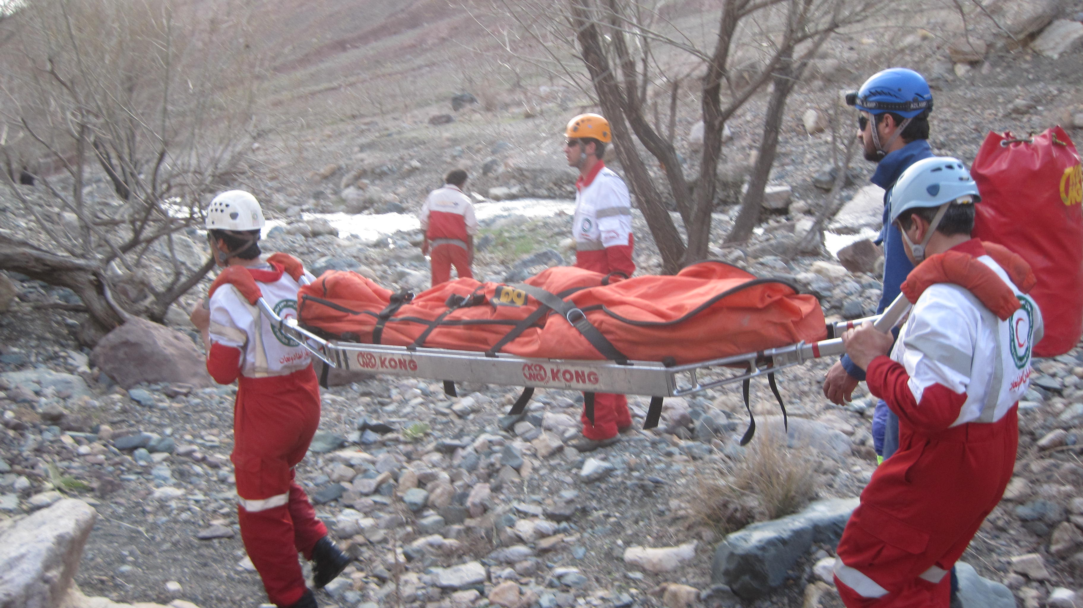 Mountain rescue